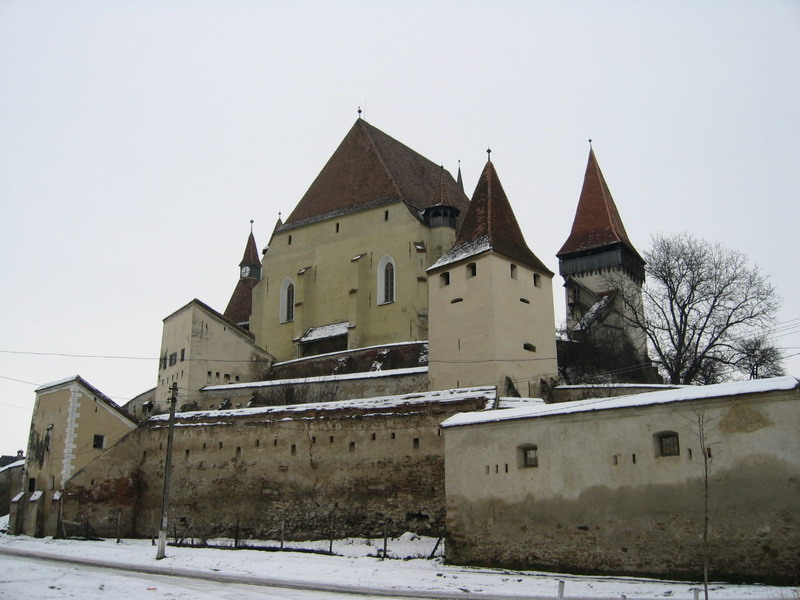 Made by me, December 2005.